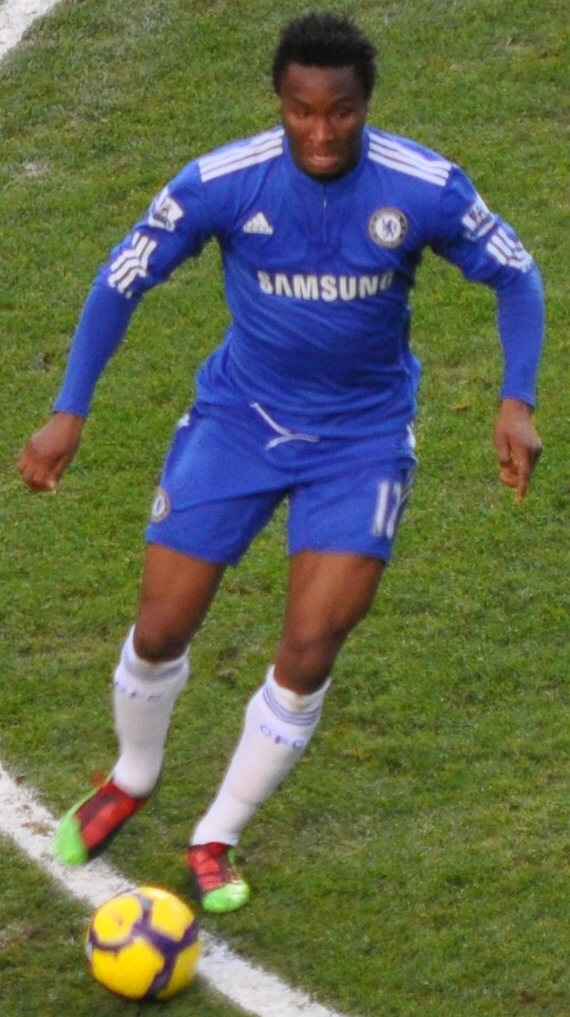 John Obi Mikel in action against Fulham on 28th December 2009